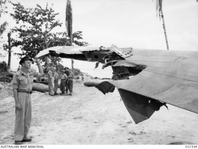 On August 9, 1944 this P-40 Kittyhawk was flown more than 200 miles with the wing damage visible: the port aileron was torn completely away, and less than 75 per cent of the wing surface was intact. Flying Officer T. R. Jacklin (pictured) of No. 75 Squadron RAAF flew back to his base on Noemfoor Island, part of Dutch New Guinea.